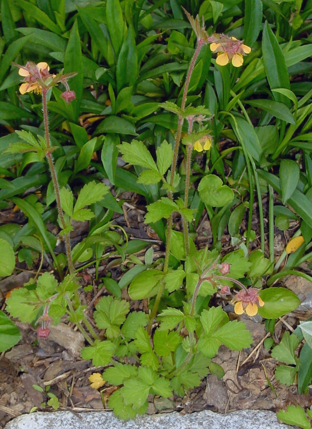 Geum × intermedium = Geum urbanum × Geum rivale